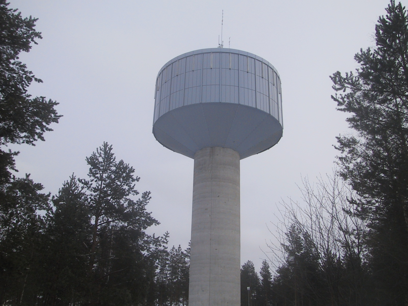 Kempele water tower in Kempele, Finland